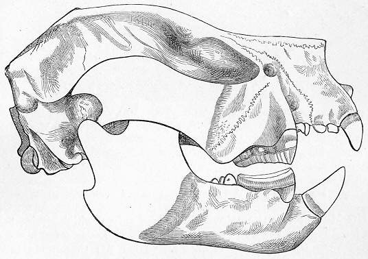 Fig. 259.—Skull of Thylacoleo. Post-Pliocene, Australia. Greatly reduced. (After Flower.)